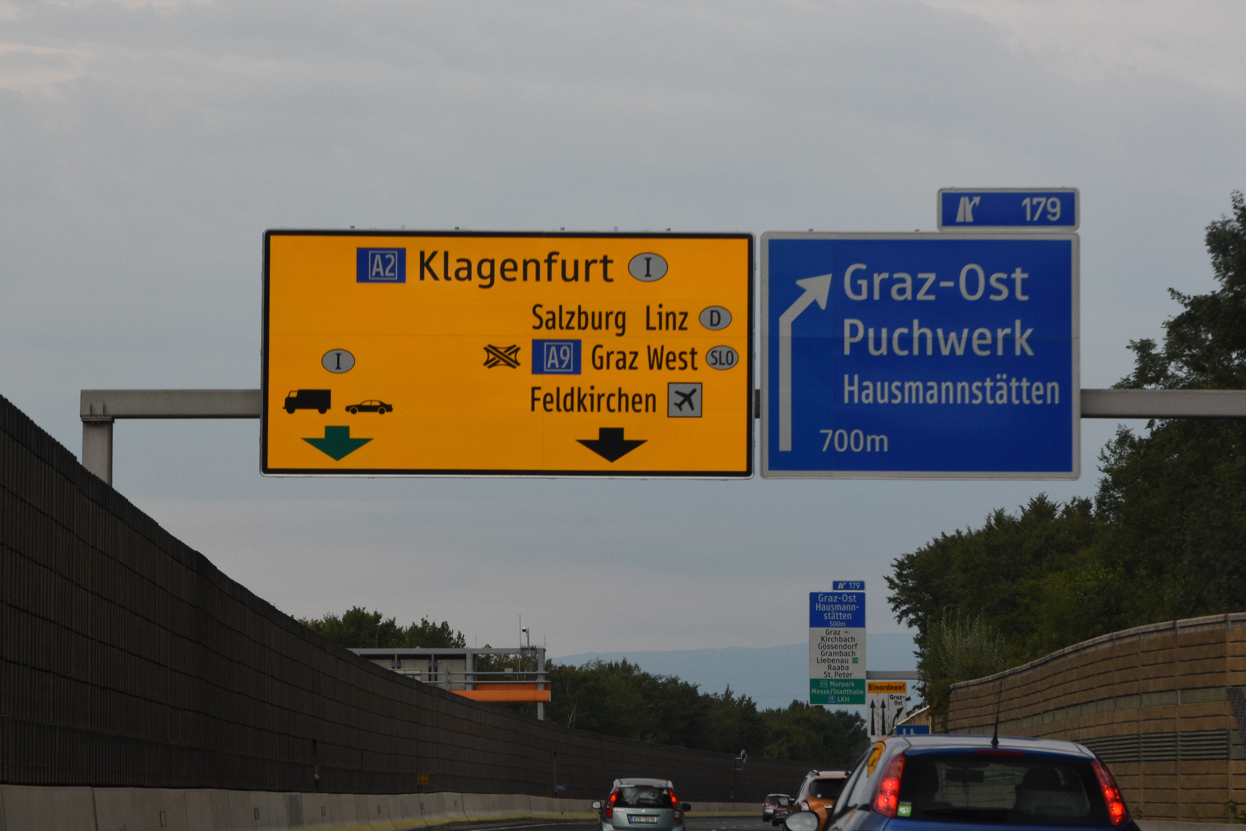 Süd-Autobahn A2 Graz-Ost